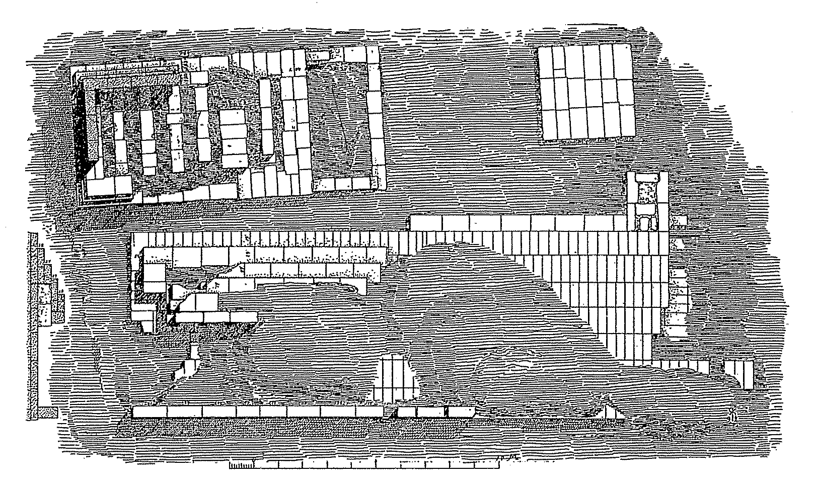 Small prostylos B and a large altar in Selinunte.